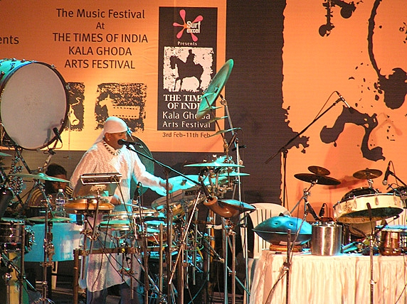 Siva Mani, acclaimed percussionist plays the Kala Ghoda festival